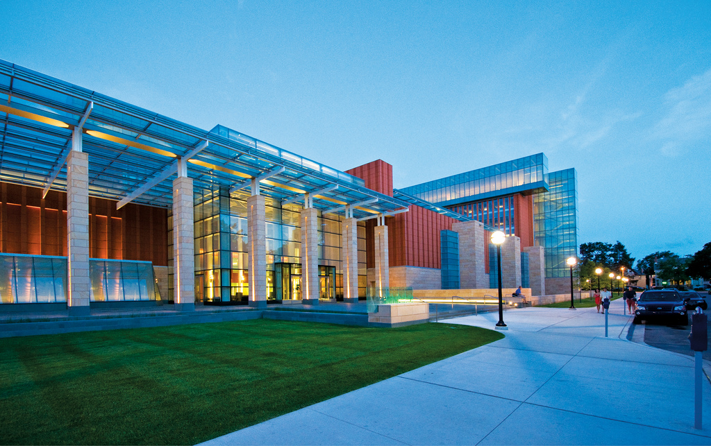 The exterior of the main building of the Ross School of Business at the University of Michigan.